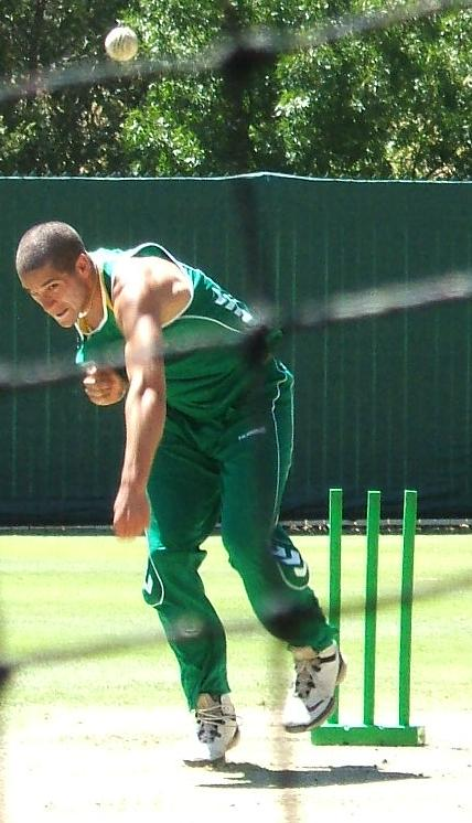 Wayne Parnell at a training session at the Adelaide Oval